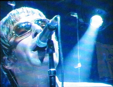 Liam Gallagher of Oasis in a concert on September 11 2005 at Shoreline Amphitheater, Mountain View, California, USA